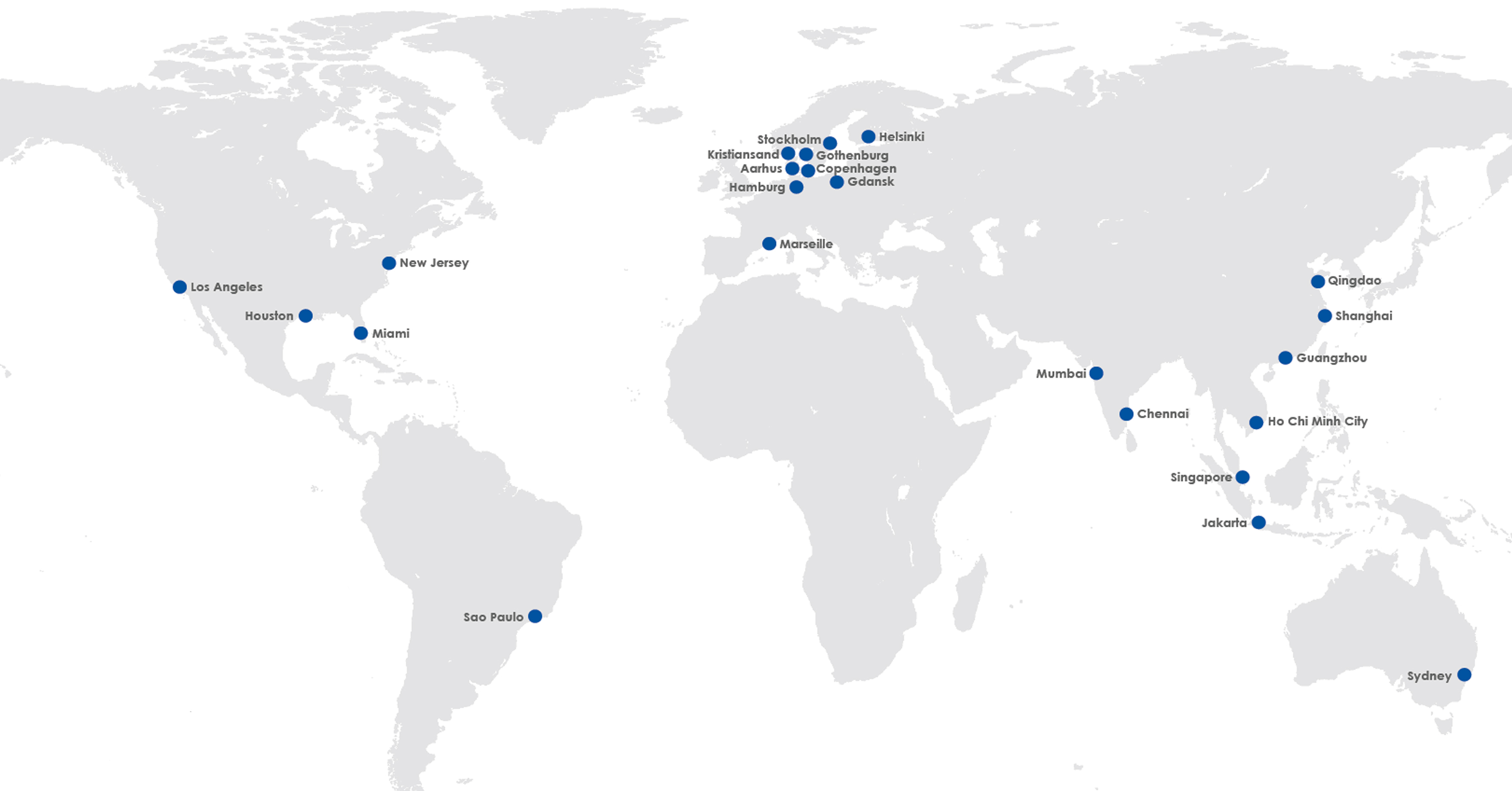 Martin Bencher Headoffice is located in Aarhus, Denmark. Martin Bencher has 21 own local offices in 14 countries and partners and agents in important locations worldwide.